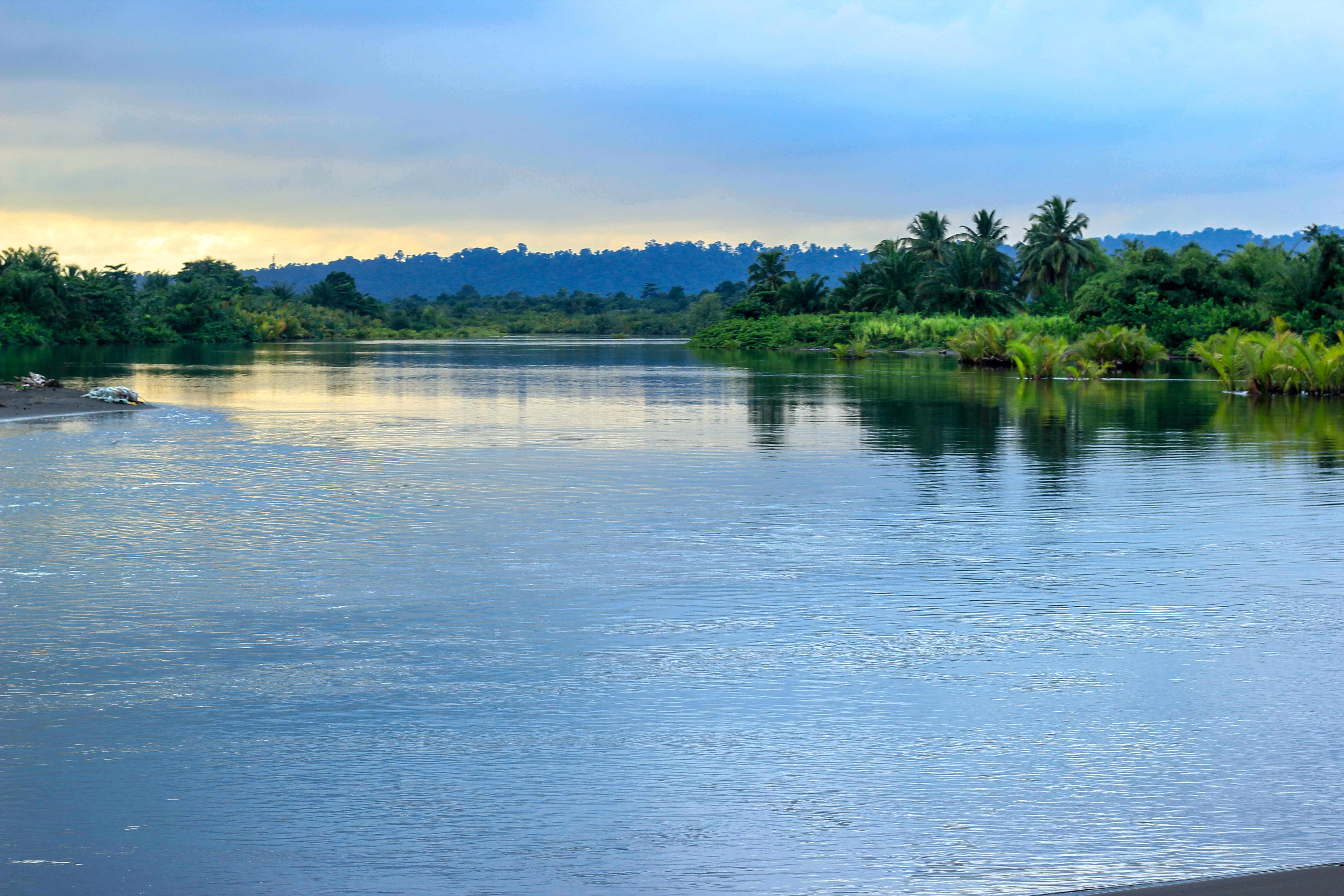 Water bodies of cameroon in idenau in the Southwest region of Cameroon. Beauty of this triangle we call cameroon